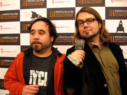 Koldo Serra and Borja Crespo at the Peniscola comedian festival on 2006